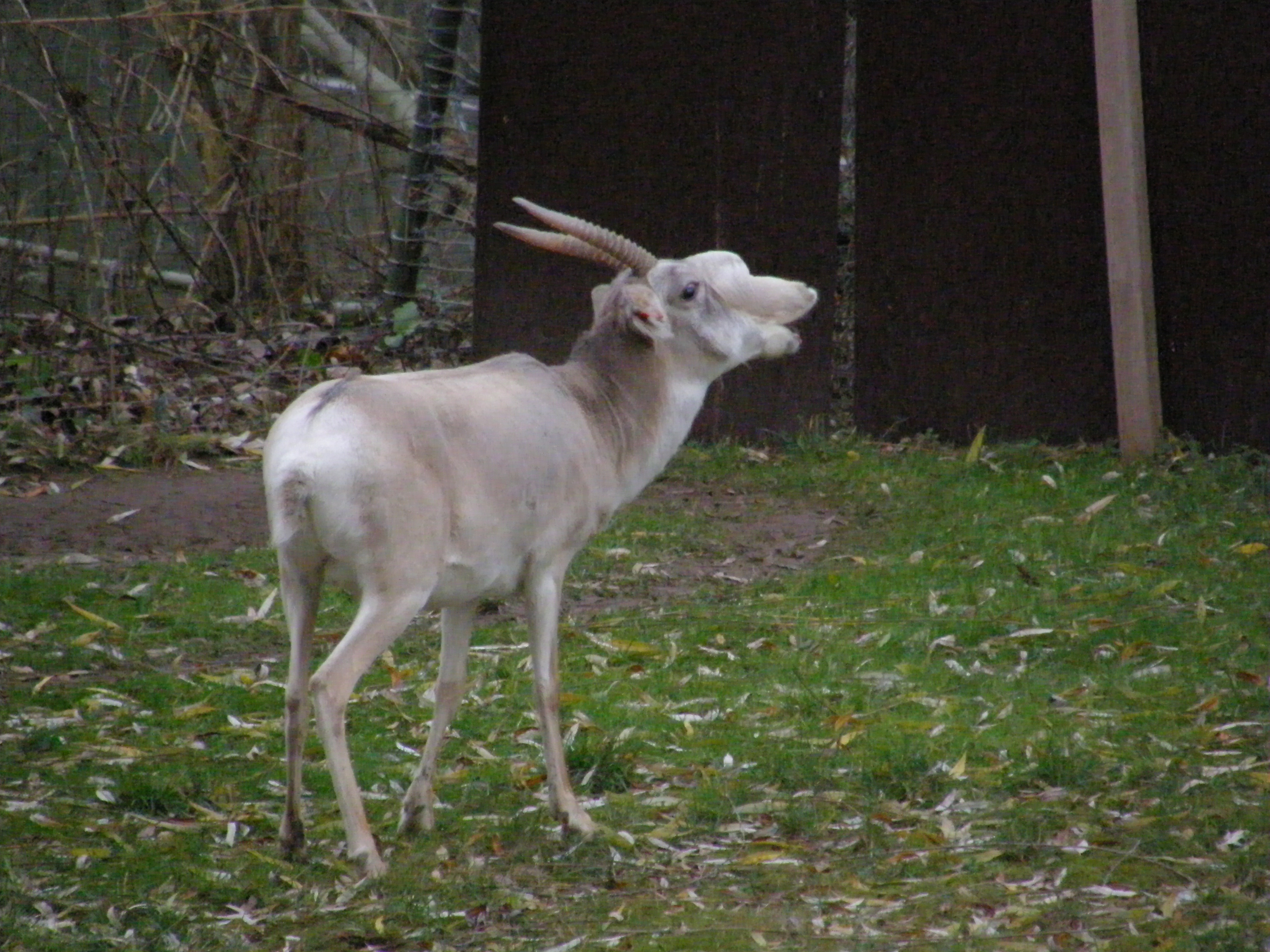 two zoo's , moscow and cologne.